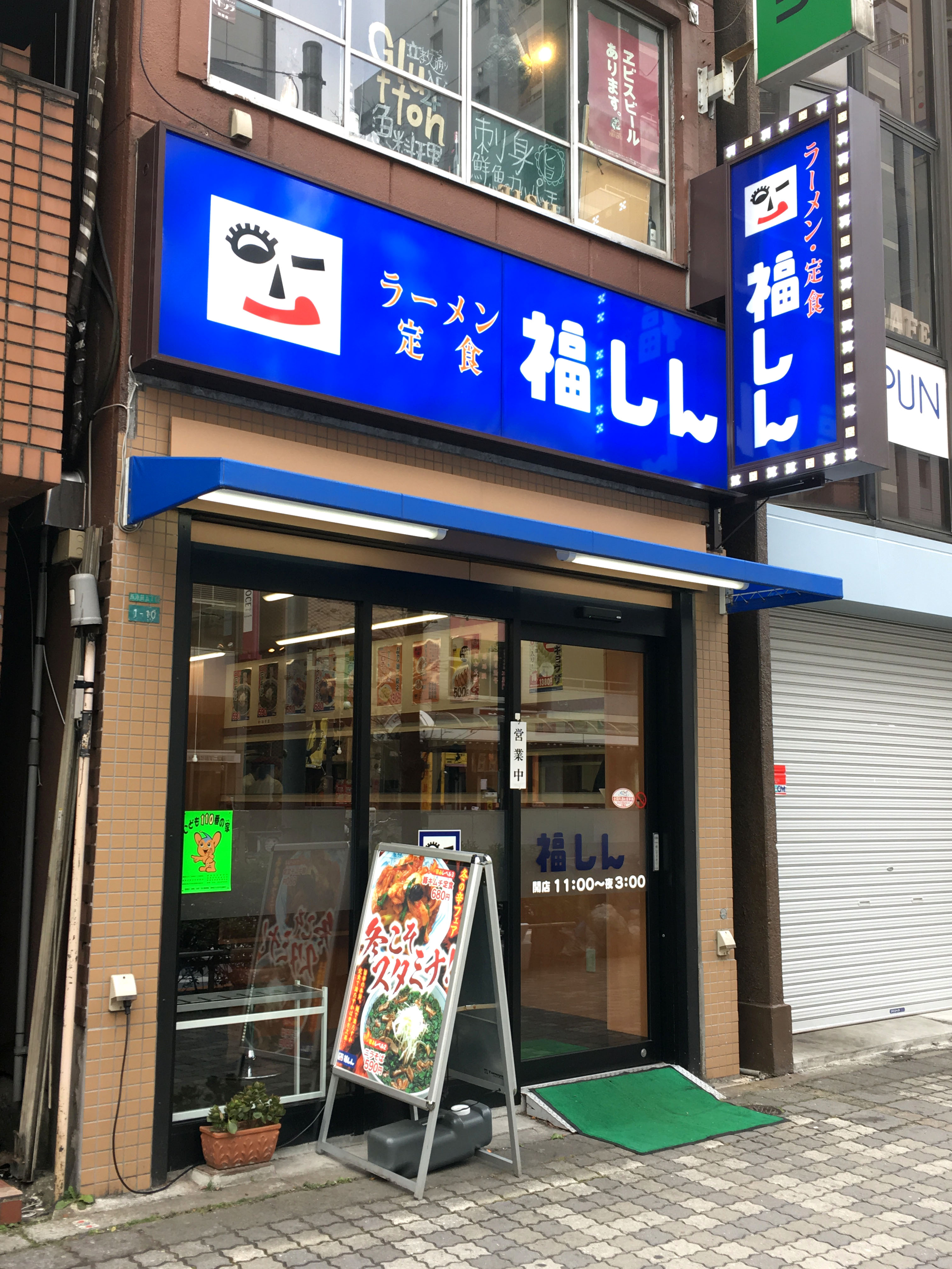 Fukushin (Japanese ramen shop) Basudori branch (Tokyo, Japan)